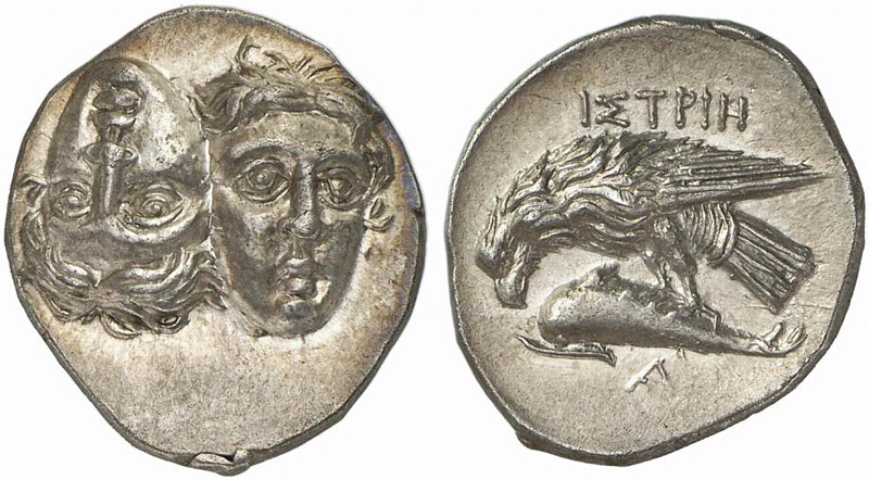 MOESIA, Istros. 4th century BC. Drachm (Silver, 5.70 g 12), circa 350. Two facing male heads side by side, one upright and the other inverted - a tête-bêche pair. Rev. ΙΣΤΡΙΗ Sea eagle standing left on dolphin; below dolphin, monogram of ΑΠ.